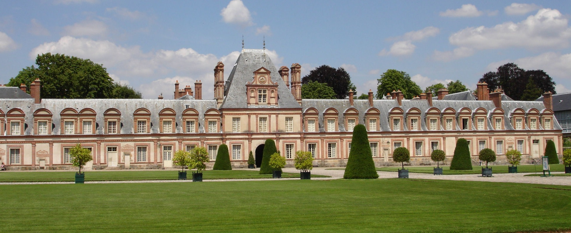 own work